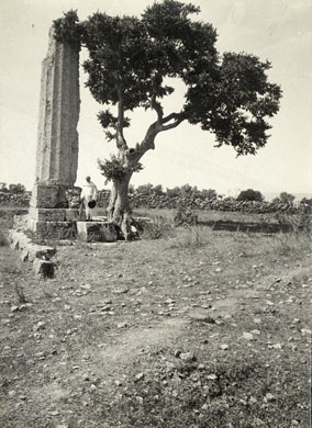 Olympieion of Syracuse